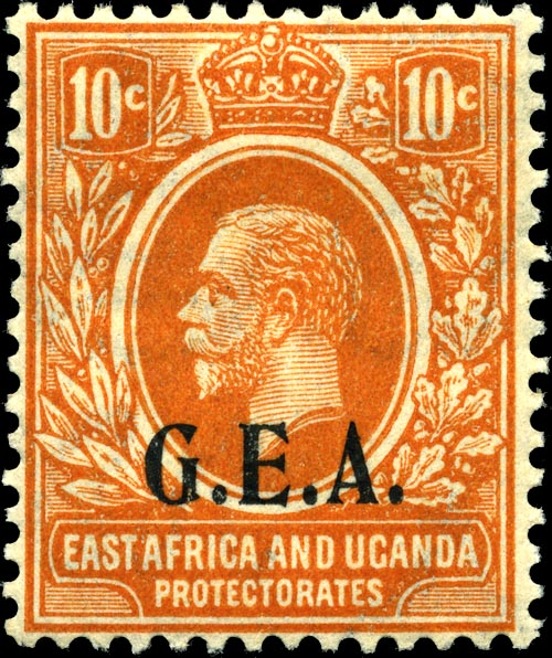 Tanganyika 10c overprint stamp of 1922